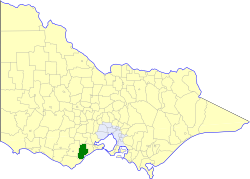 Location of the former Shire of Winchelsea within Victoria.